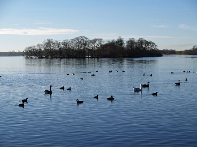 Hornsea Mere, Hornsea, East Riding of Yorkshire, England.Photo taken looking towards Swan Island.